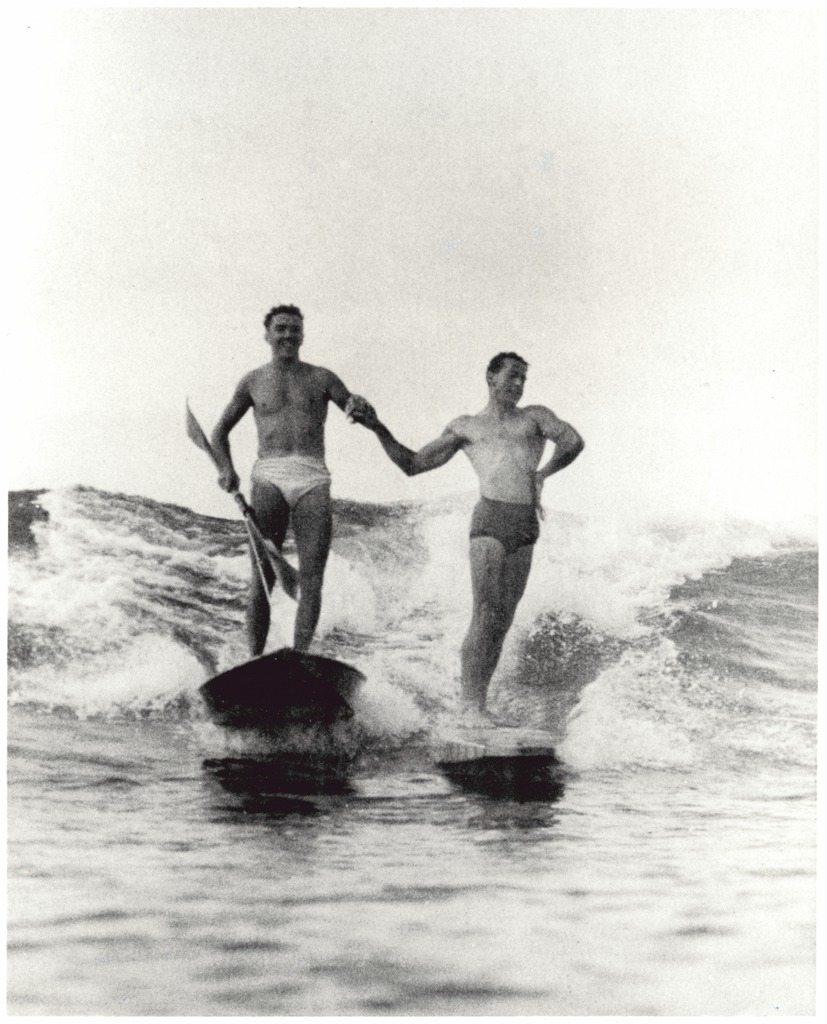 Leighton, Ray, 1917- Also available in an electronic version via the Internet at: .au/nla.pic-an14035743-2. Persistent URL .au/nla.pic-an14035743-2